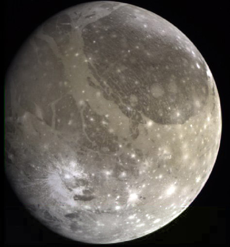 "Ganymede True Color Orbit 1" A true color image of Ganymede acquired by the Galileo spacecraft (taken on June 26, 1996). (NASA/JPL image)